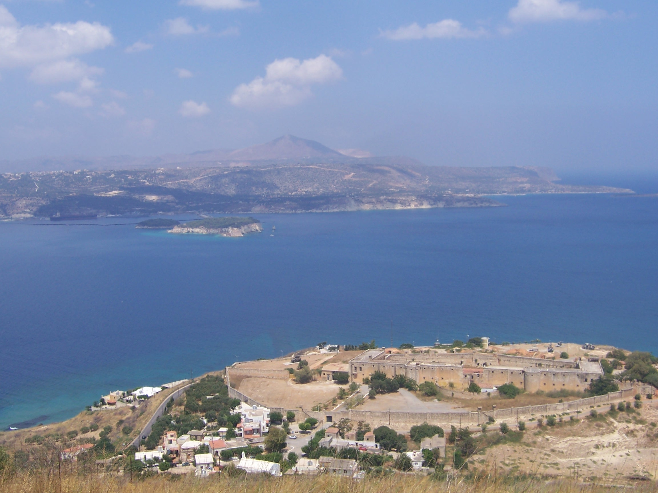 Itzedin fortress, Suda bay and Akrotiri peninsula seen from turkish fortress at Aptera. Crete, Greece